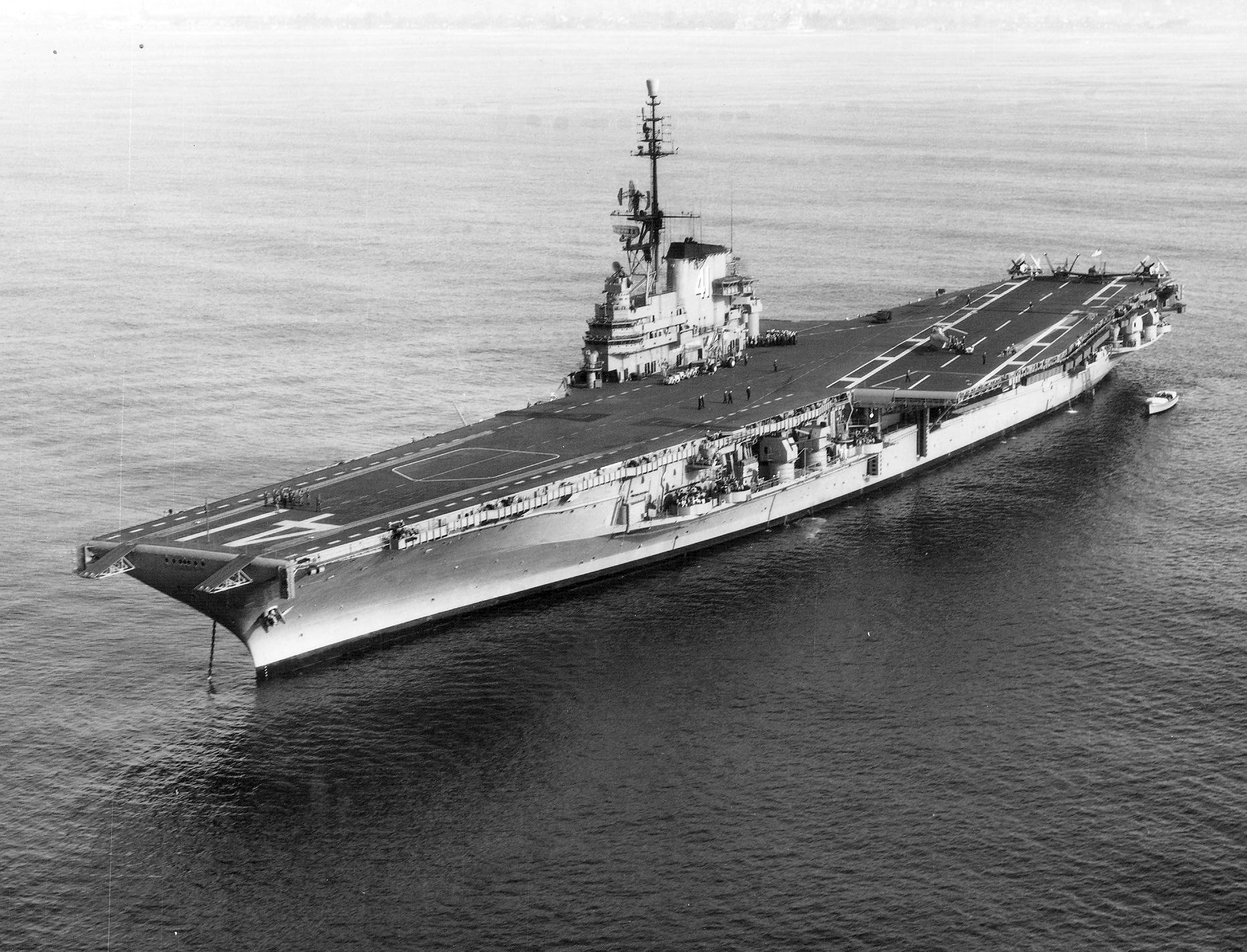 The U.S. Navy aircraft carrier USS Midway (CVA-41) at anchor off Coronado, California (USA), following her SCB-110 modernization.